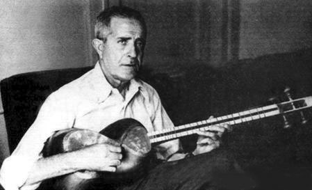 Gholam-hossein Bigjeh-khani, Iranian musician and tar player.